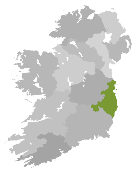 Location map of the Church of Ireland Diocese of Dublin & Glendalough Information source: Church of Ireland website]